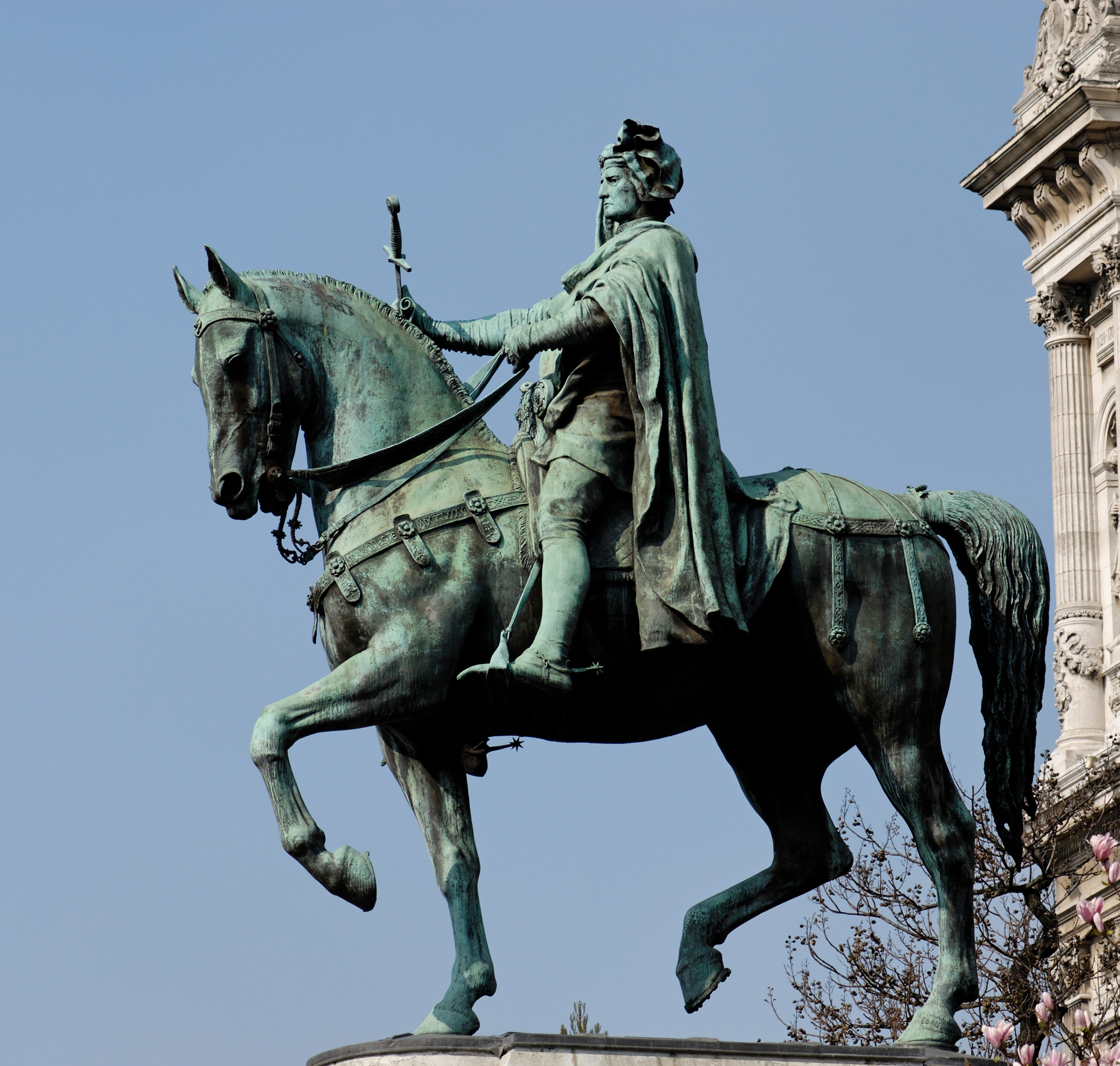 Étienne Marcel, provost of the Parisian merchants in the 14th century, by Jean Idrac (French, 1849–1884) and Laurent Marqueste (French, 1850–1920). Bronze, 1880. Southern facade of the Hotel de Ville, 4th arrondissement of Paris.